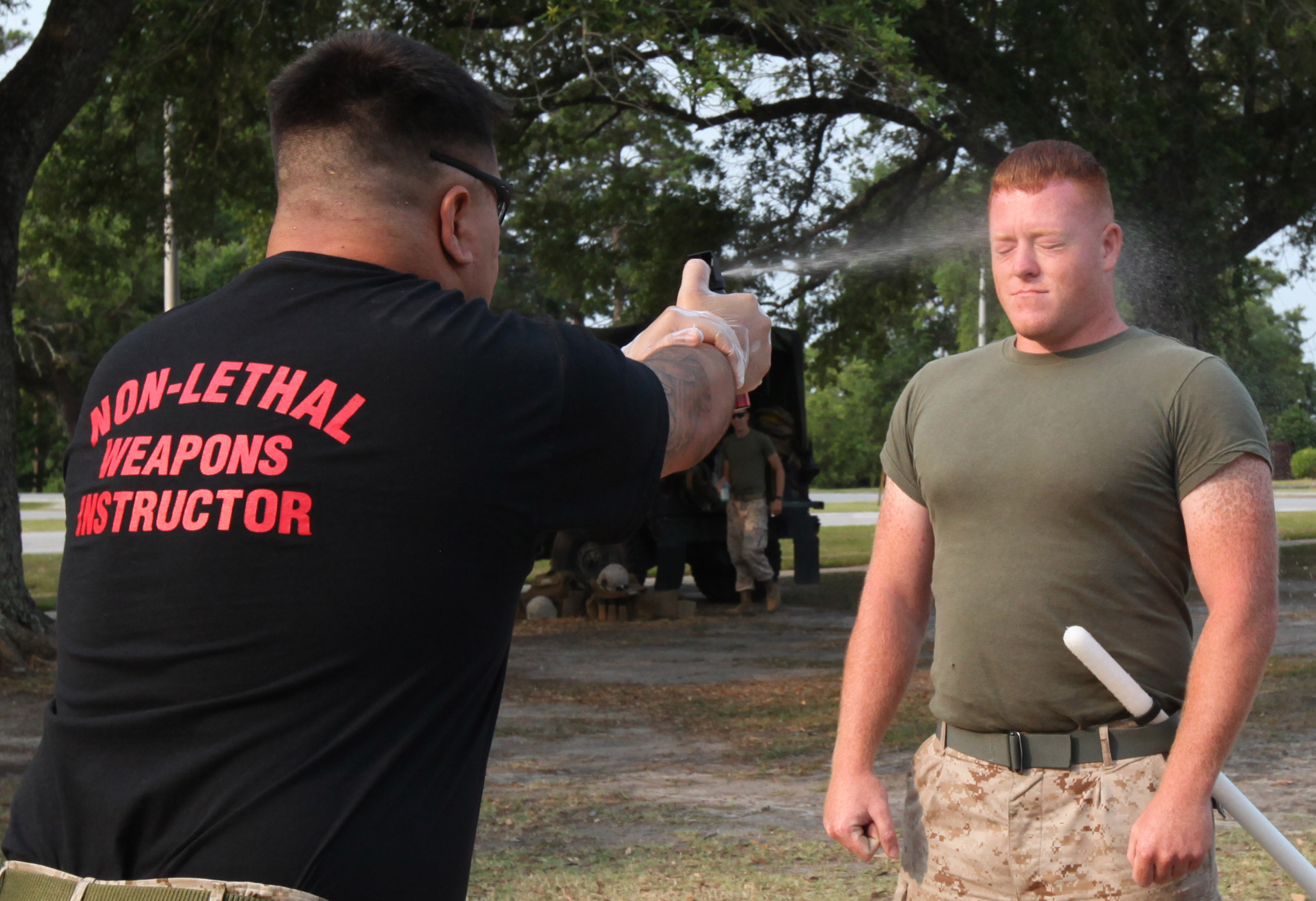 Cpl. Steven Del Gallo motor vehicle operator with Truck Company, Headquarters Battalion, 2nd Marine Division, is sprayed in the face with Oleoresin Capsicum before undergoing the OC spray certification course being held aboard the Marine Corps Base Camp Lejeune N.C., June 21, 2011. The OC course is made up of five different stations that test the Marines' ability to push through the pain of OC spray and properly employ techniques know as Mechanical Advantage Control Holds in a combat situation.